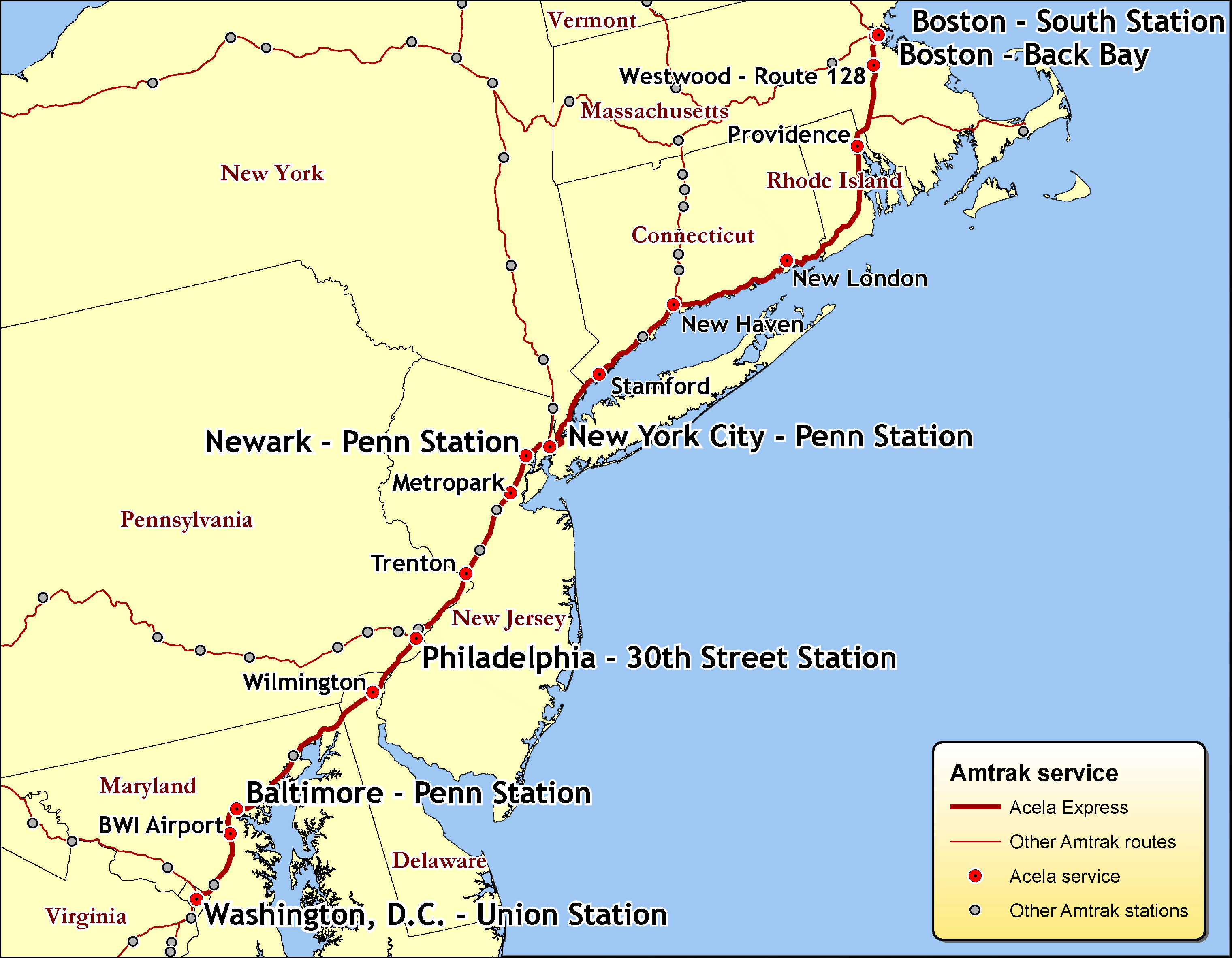 Amtrak - Acela Express route map Created by Kmf164